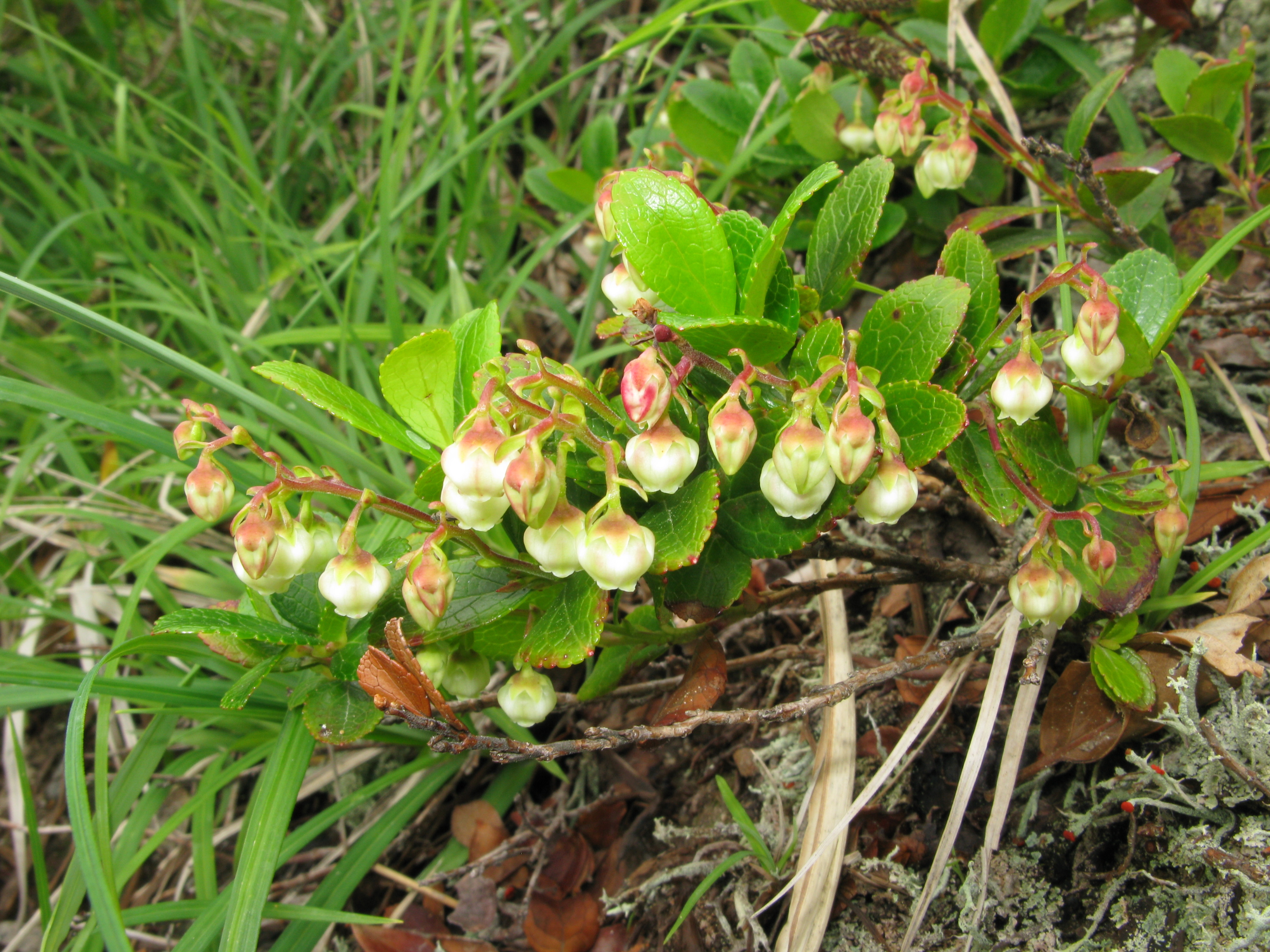 Gaultheria miqueliana, Aizu area, Fukushima pref., Japan